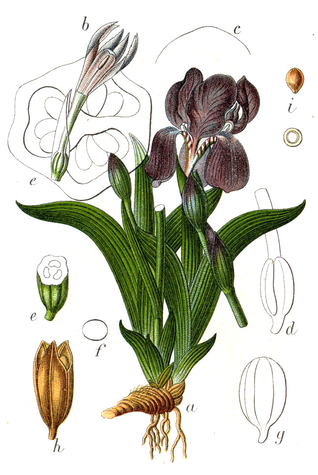 Iris aphylla L., syn. Iris nudicaulis Lam. Original Caption Kurzblattrige Schwertlilie, Iris nudicaulis